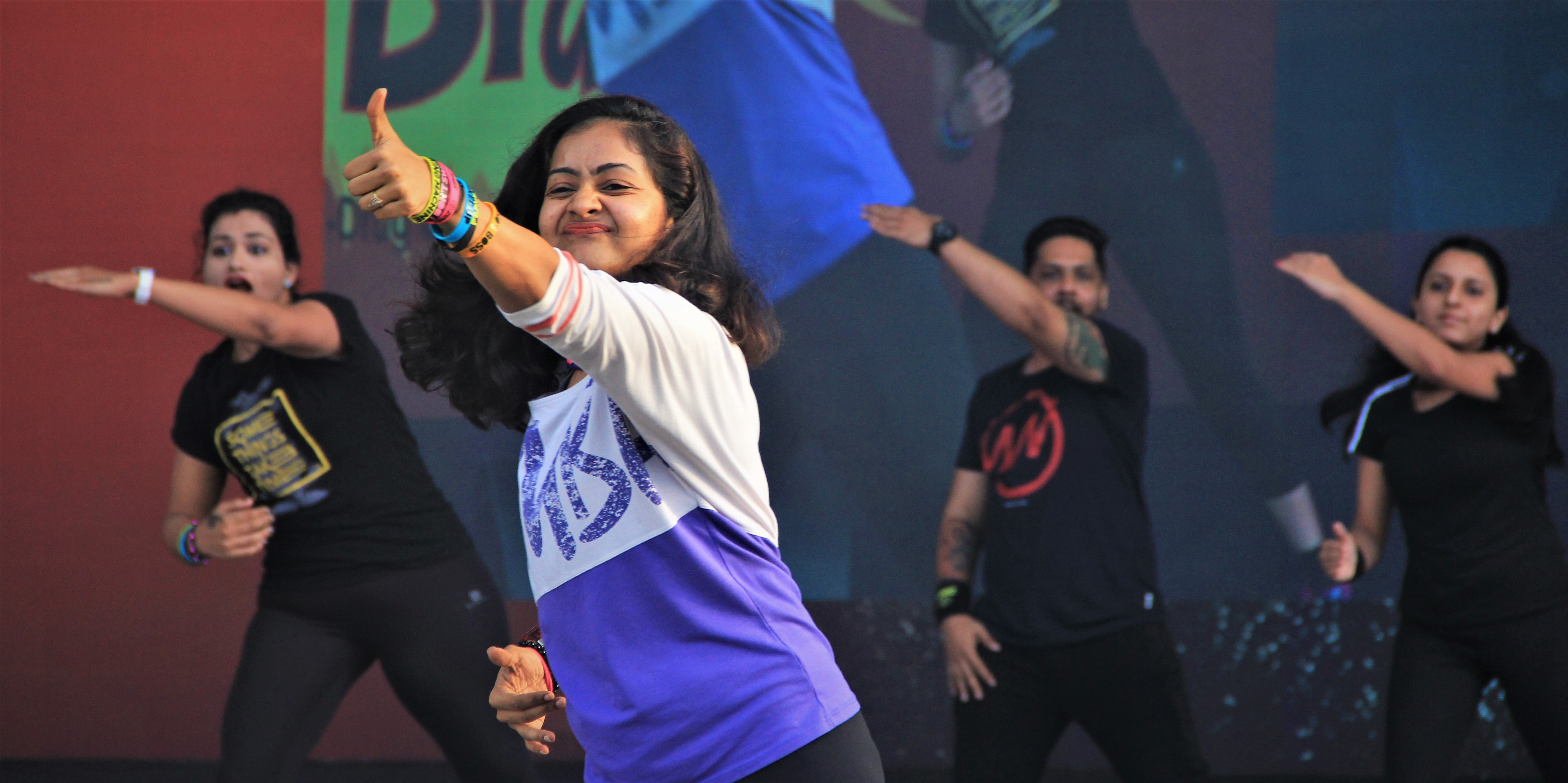 Zumba dancing at Kochi, India.